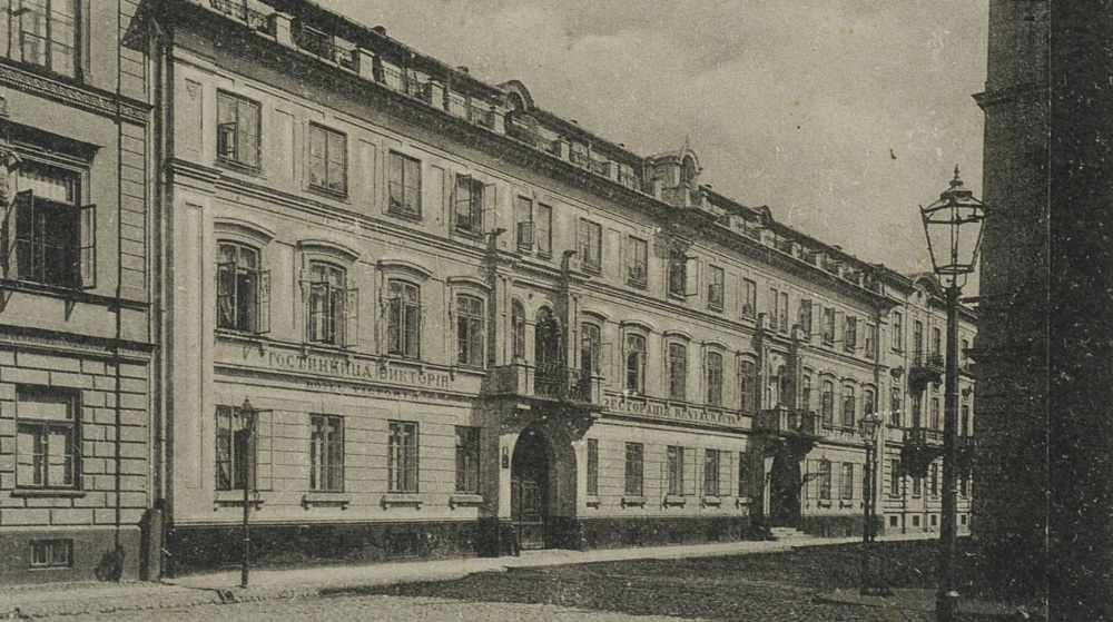 Hotel Victoria w Warszawie (nieistniejący)